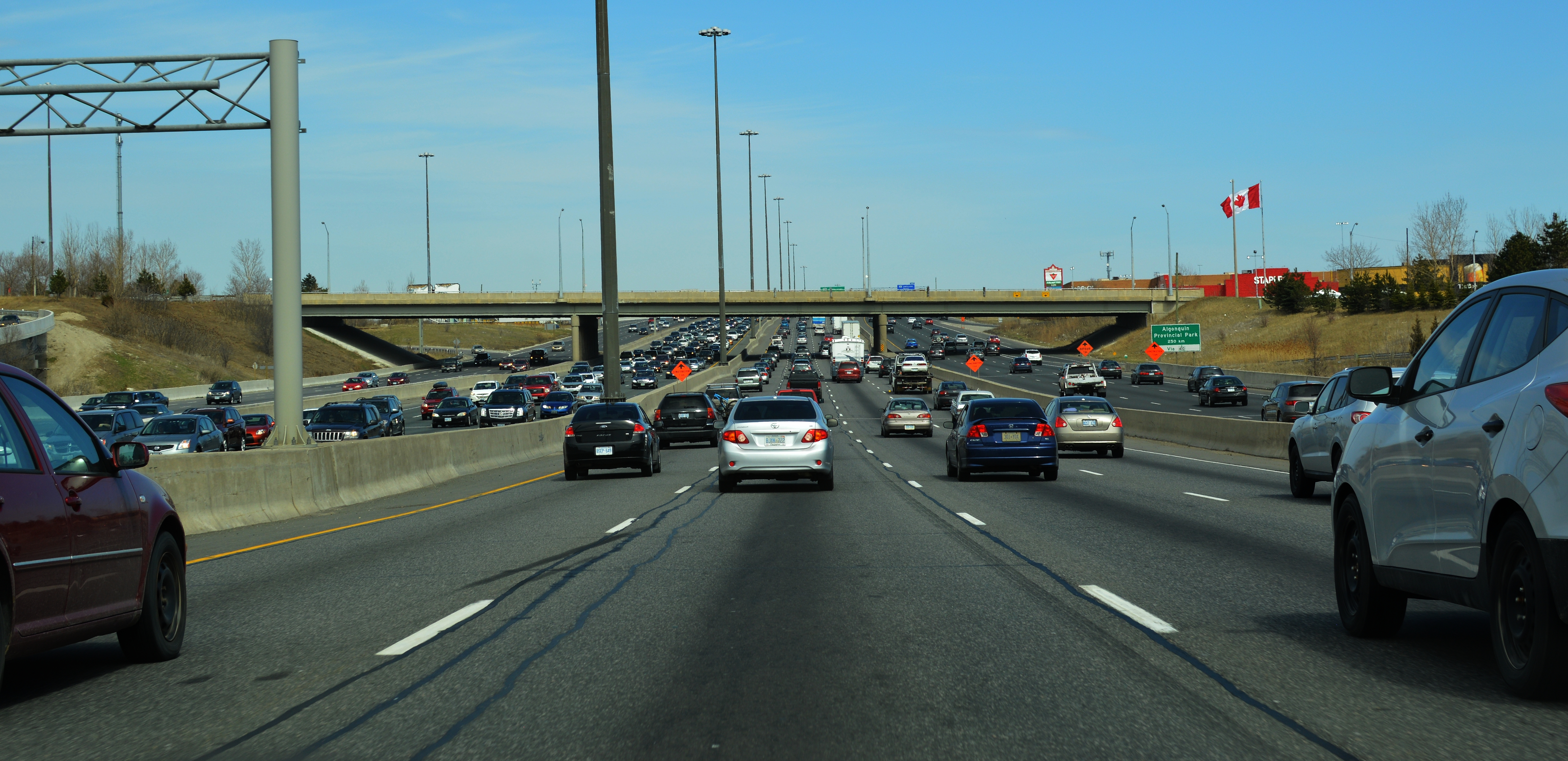 Highway 401 eastbound at Weston Road in Toronto, the busiest section of highway in North America. From video